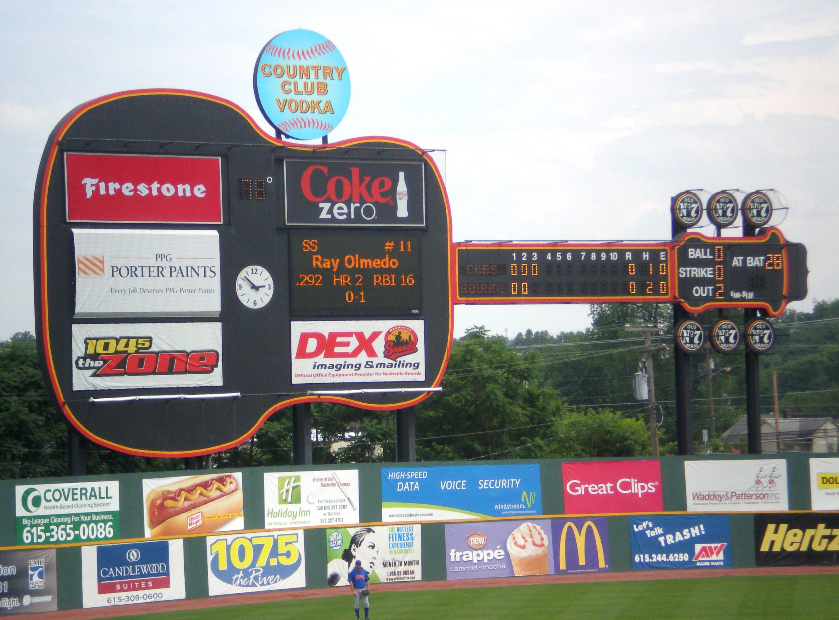 Iowa Cubs face Nashville Sounds in a Minor League Baseball Triple-A game of the Pacific Coast League at Herschel Greer Stadium in Nashville, Tennessee, on May 30, 2010. See boxscore and read game recap .